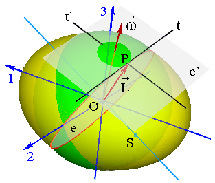 Geometric proportions in the Hess case of the movement of a heavy top.